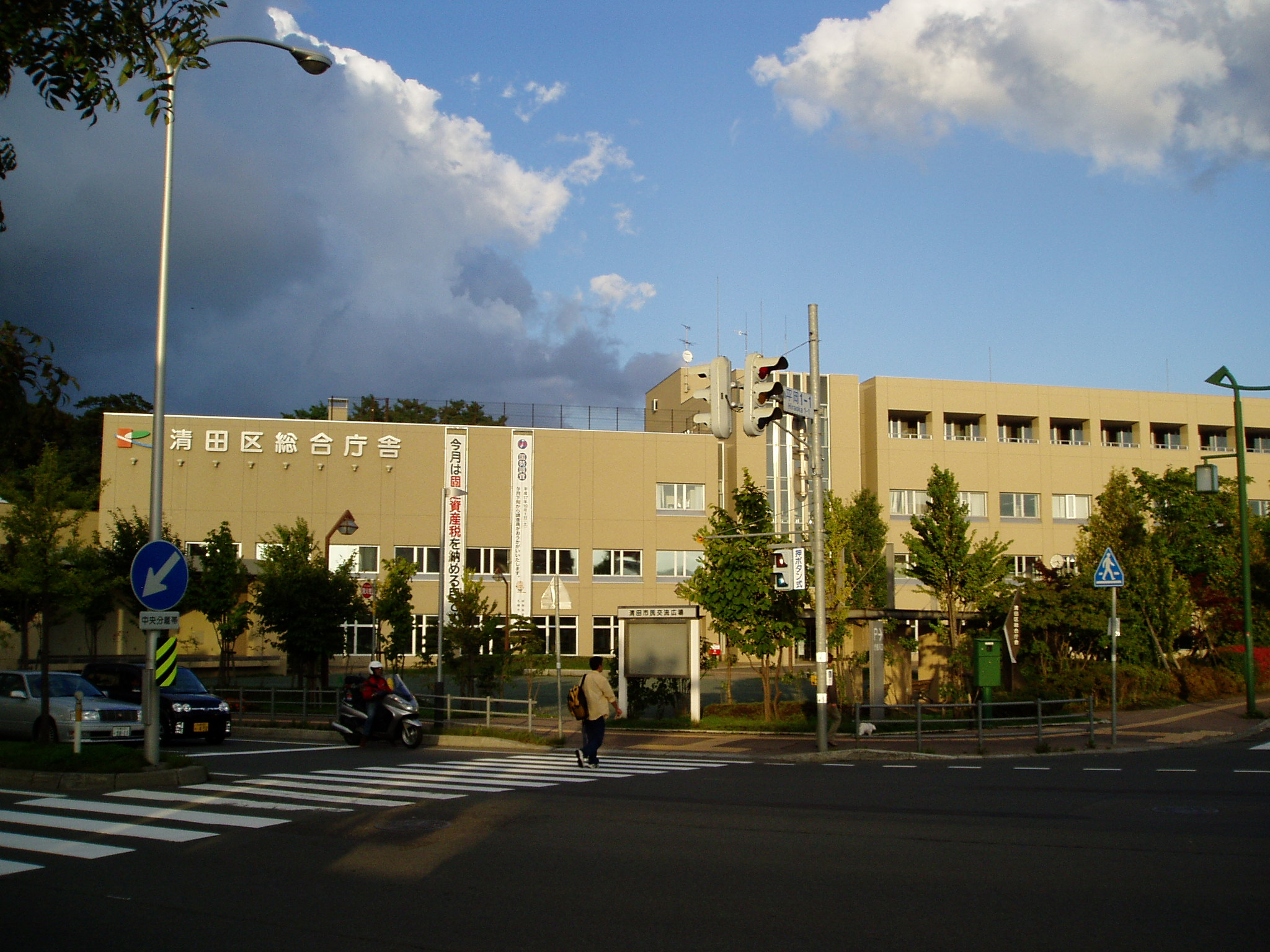 Kiyota Ward Office in Sapporo City, Japan